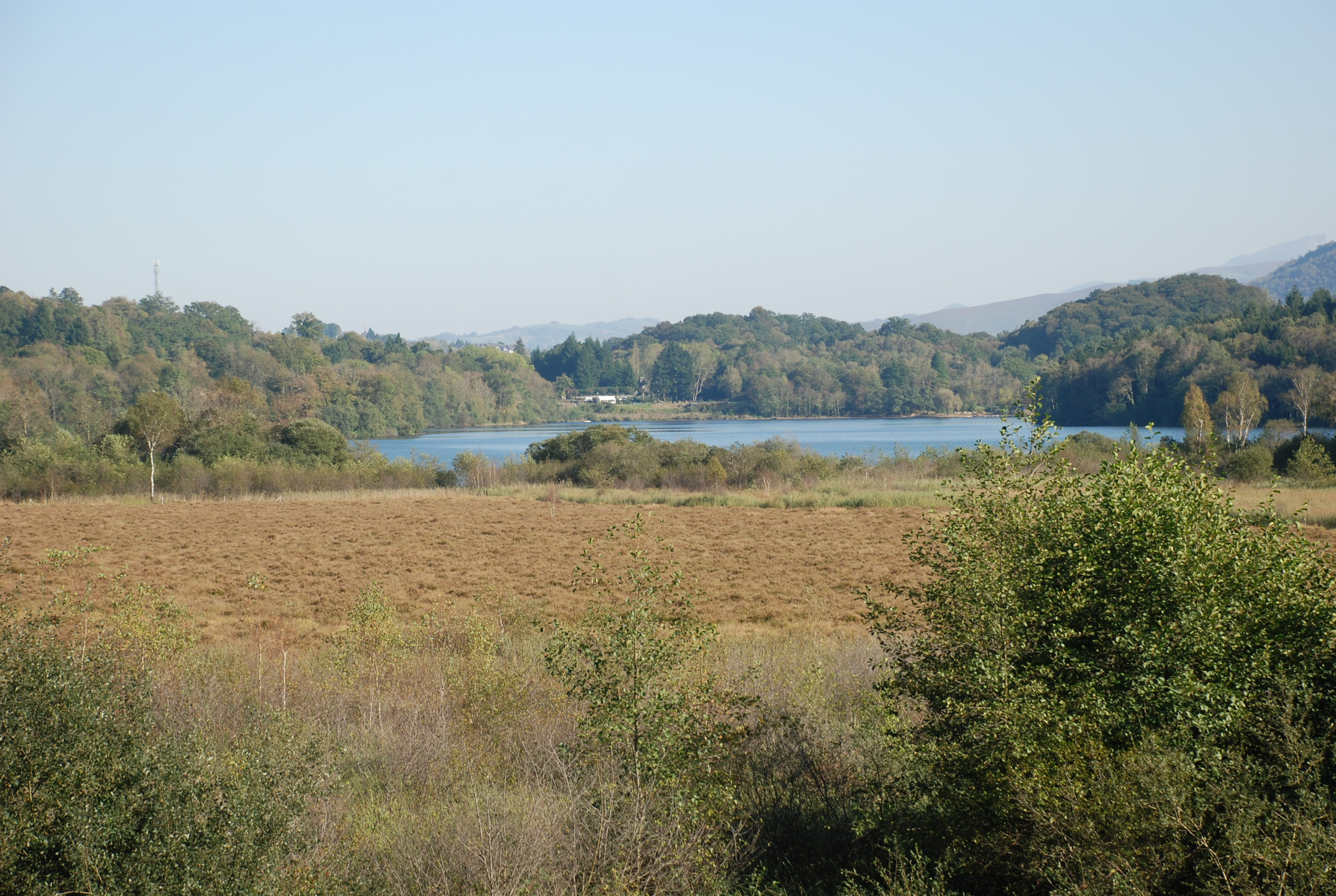 Bog of the Lake of Lourdes, Hautes Pyrenees, France, Natura 2000 place